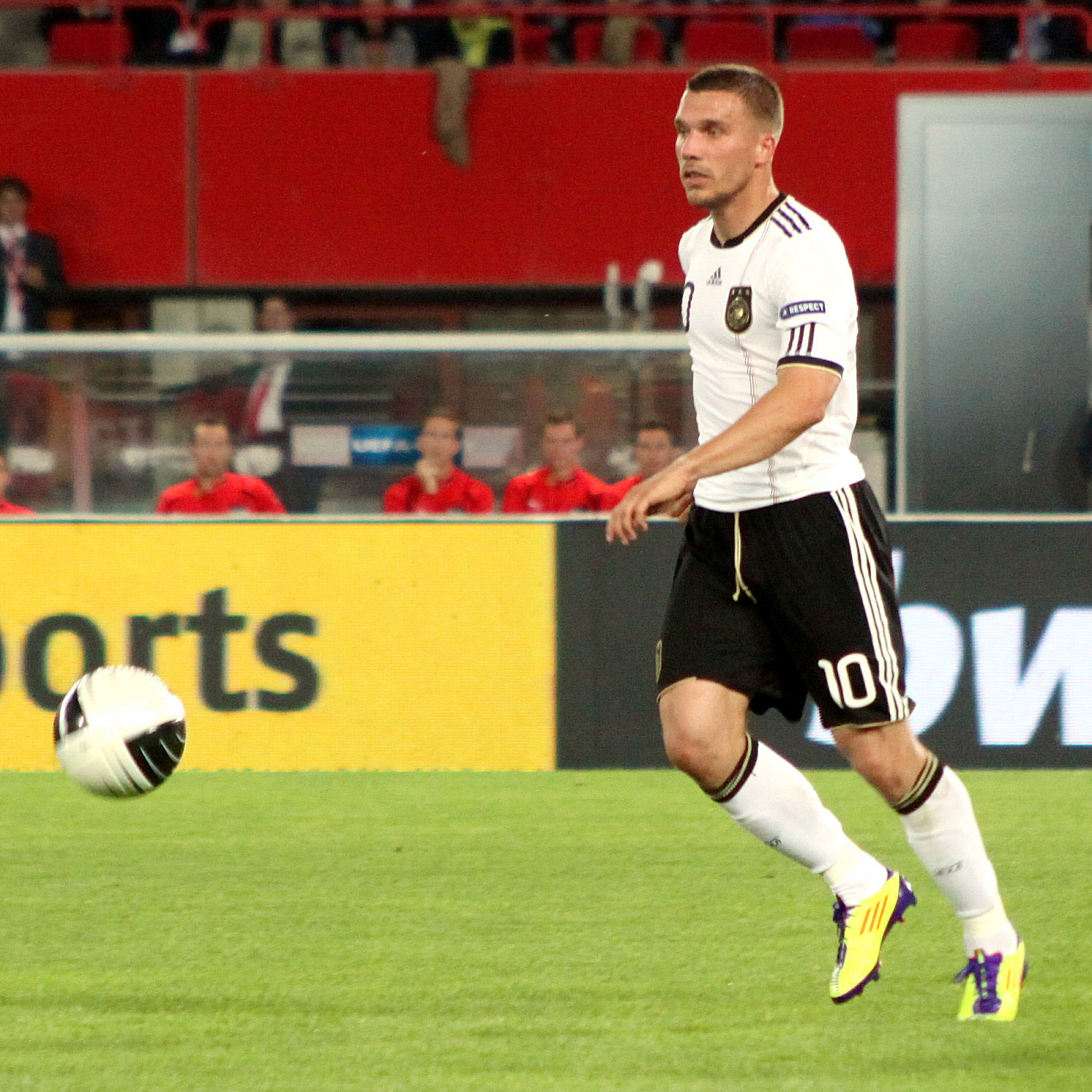 Lukas Podolski (1. FC Köln), german national football team